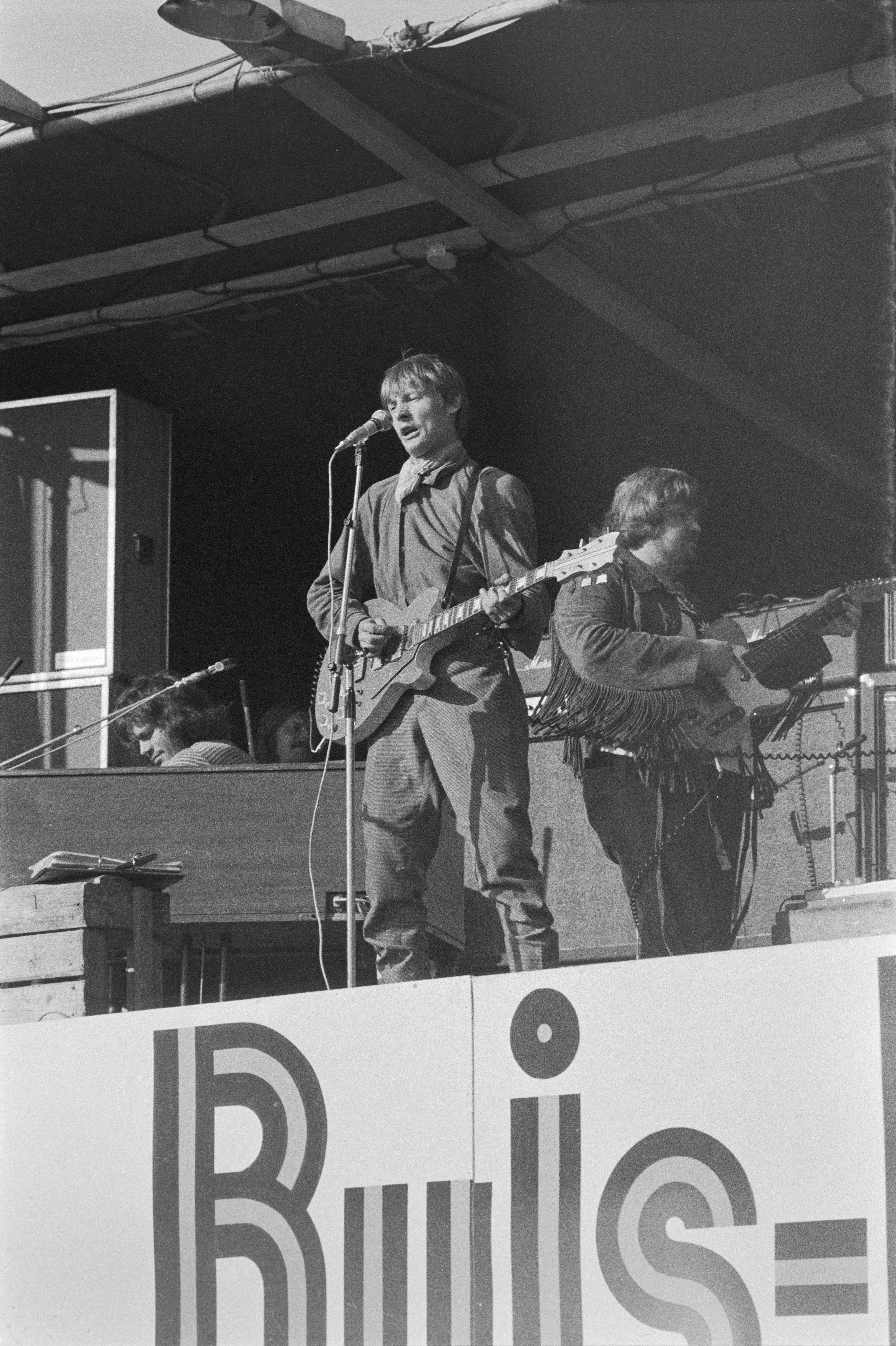 Photograph of the Finnish rock musicians Tommie Mansfield and Jussi Raittinen at Ruisrock festival.